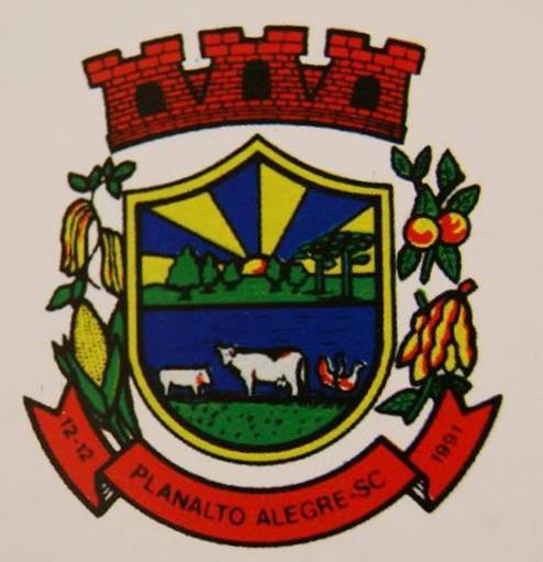 Coat of Arms